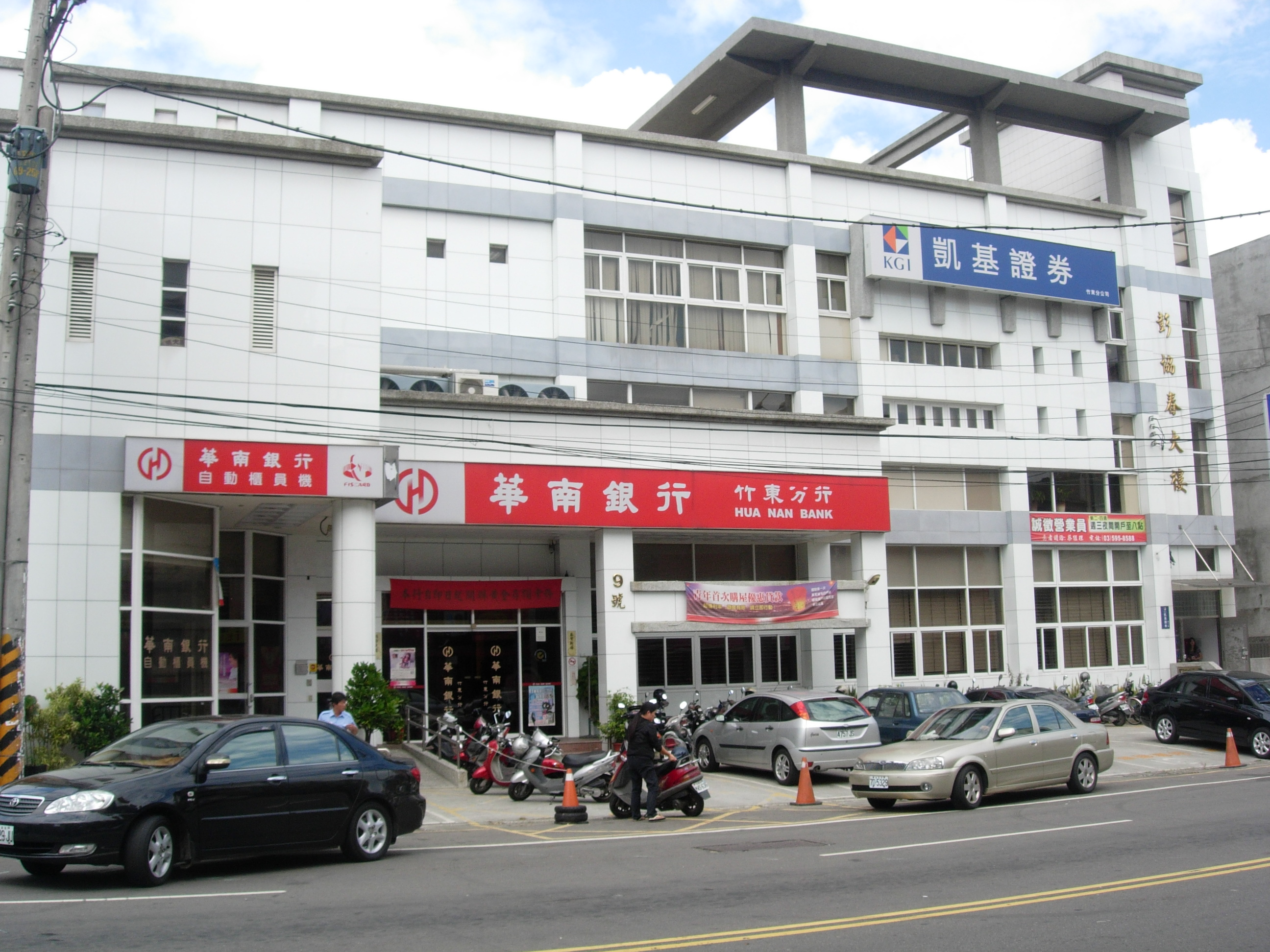 Chutung Branch of Hua Nan Bank and KGI Securities in Zhudong Township, Hsinchu County. 中文（台灣）: 華南銀行竹東分行與凱基證券竹東分公司，位於新竹縣竹東鎮彭協春大樓。